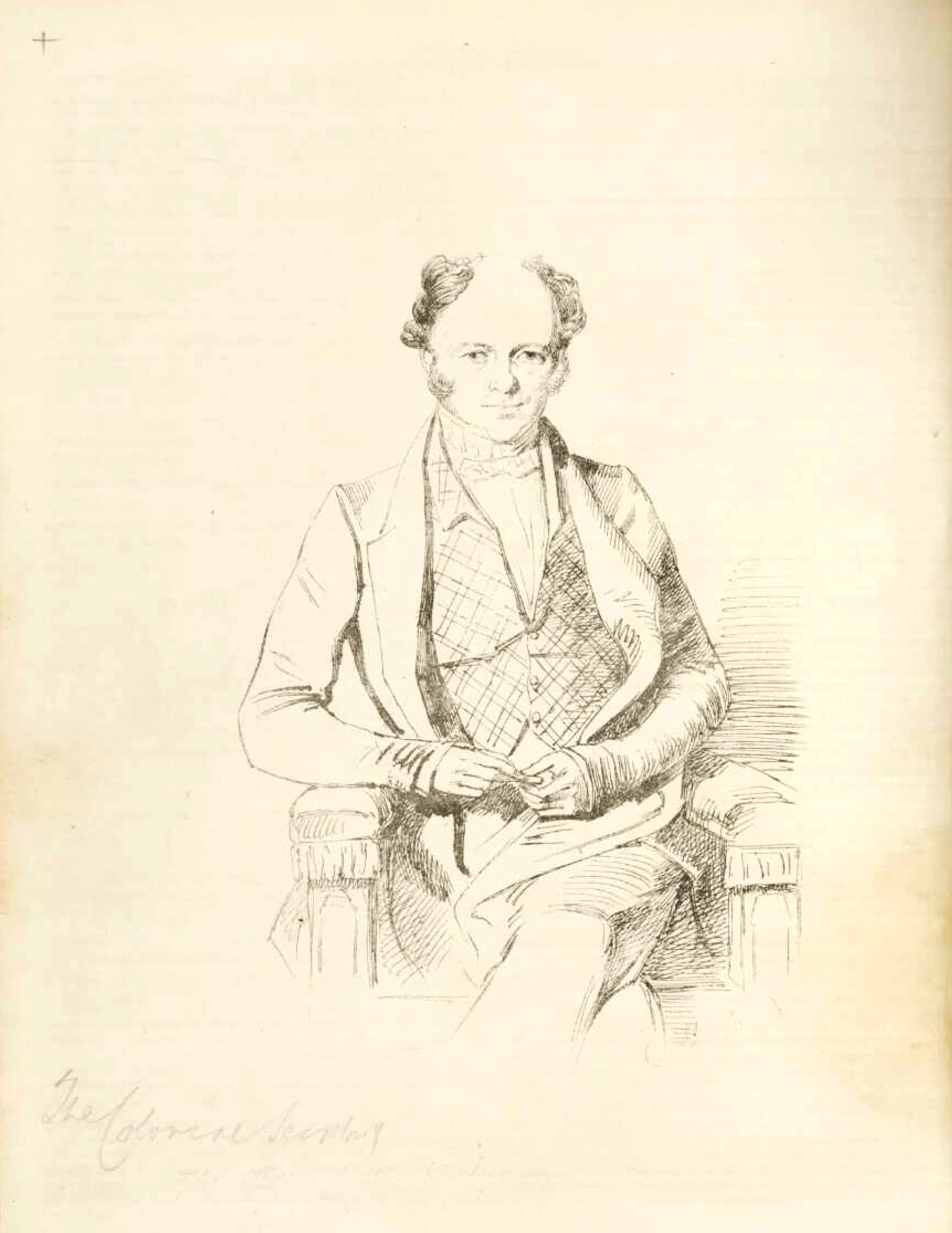 Portrait of Edward Deas Thomson, Colonial Secretary, by William Nicholas, 1847-1848, from Baker, W. (1847). Heads of the People : An Illustrated Journal of Literature, Whims, and Oddities, State Library of New South Wales, Q059